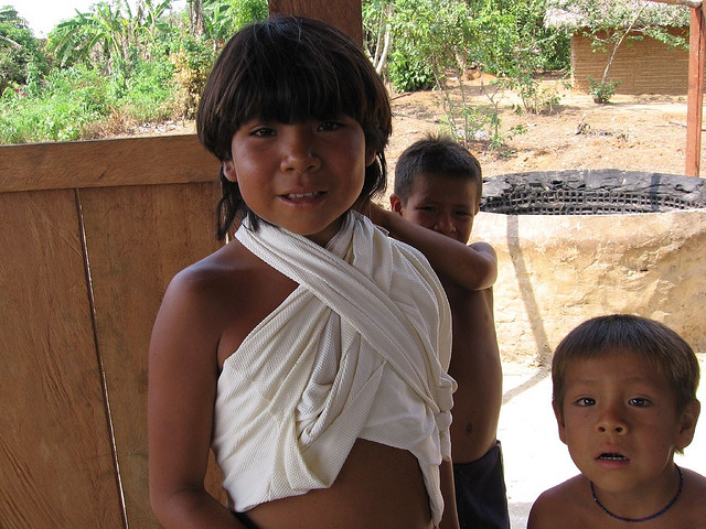 Three Araweté children in Brazil, 2005, photo by Avidd.